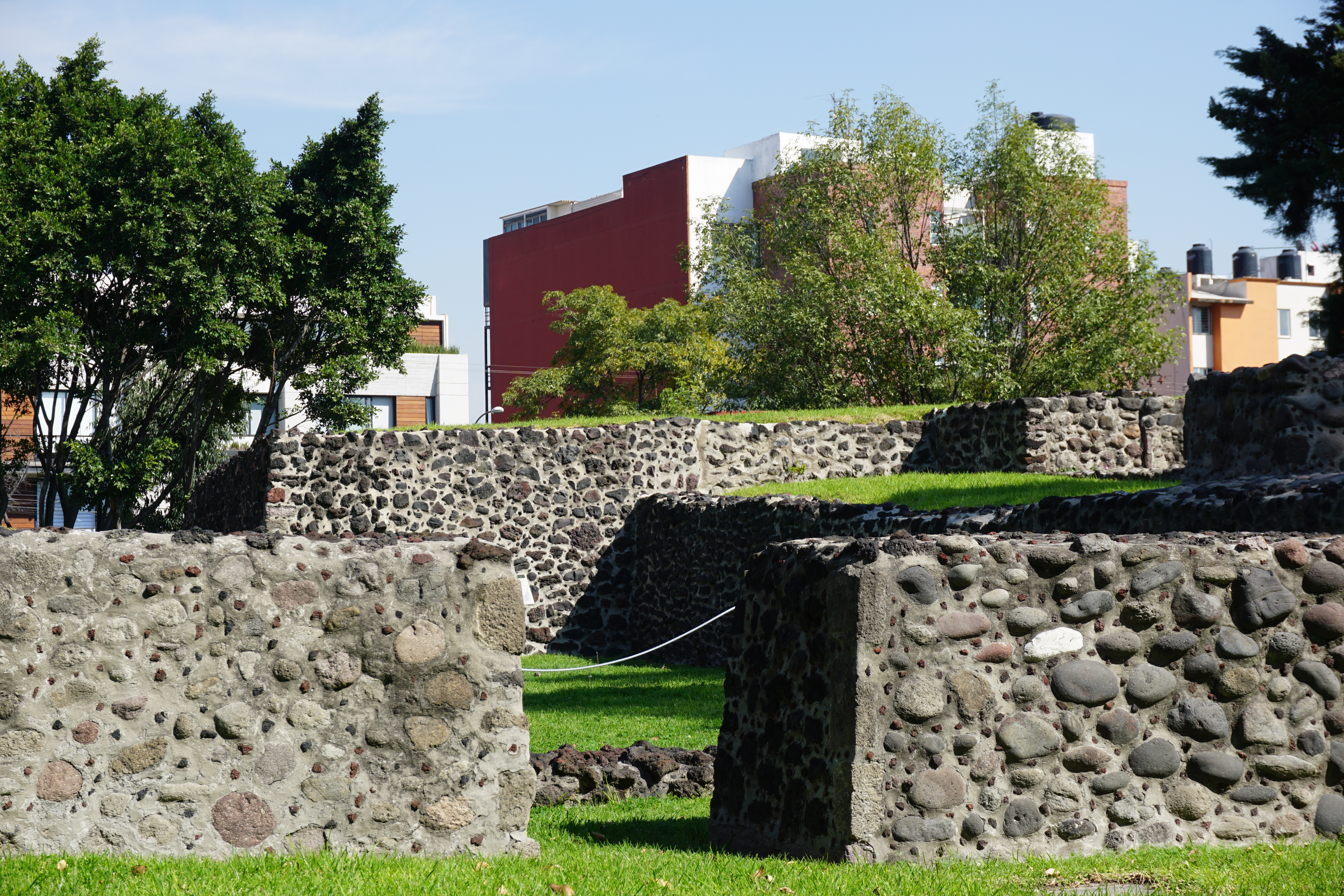 Opened to the public in August 2019. It is free and open daily. Per INAH: Mixcoac, whose name in Nahuatl means “where the cloud snake is venerated”, dates from the Teotihuacan era (400-600 AD), but the remains that are visited today belong to its Mexica occupation (900-1521 AD).Per El Universal: It is one of the smallest archaeological sites in Mexico, with 7,200 square meters. Diego Prieto (director of INAH) added that the site “is like a flower amidst the asphalt, for it is, practically, embedded next to the Periférico [highway], surrounded by housing units and roads.”